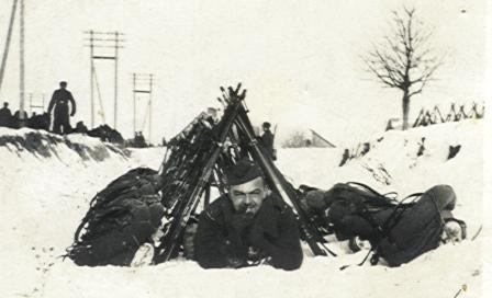 Tadeusz Chyliński on artillery range (Volodymyr-Volynskyi winter 1936/37)